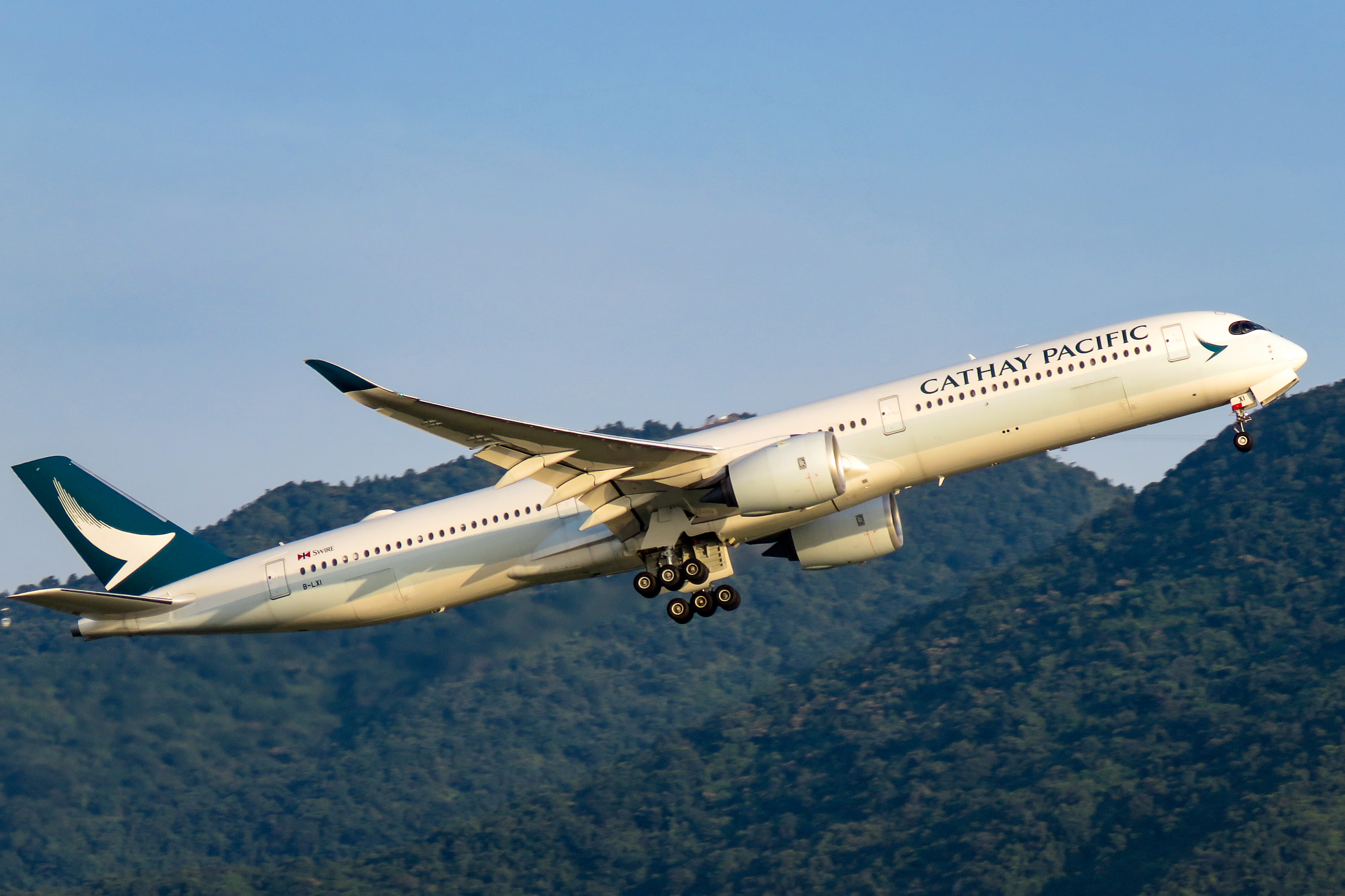 Cathay 866 to Washington DC. Thanks to the summer solar angle, we're able to spot this "renowned" flight before it went dark!